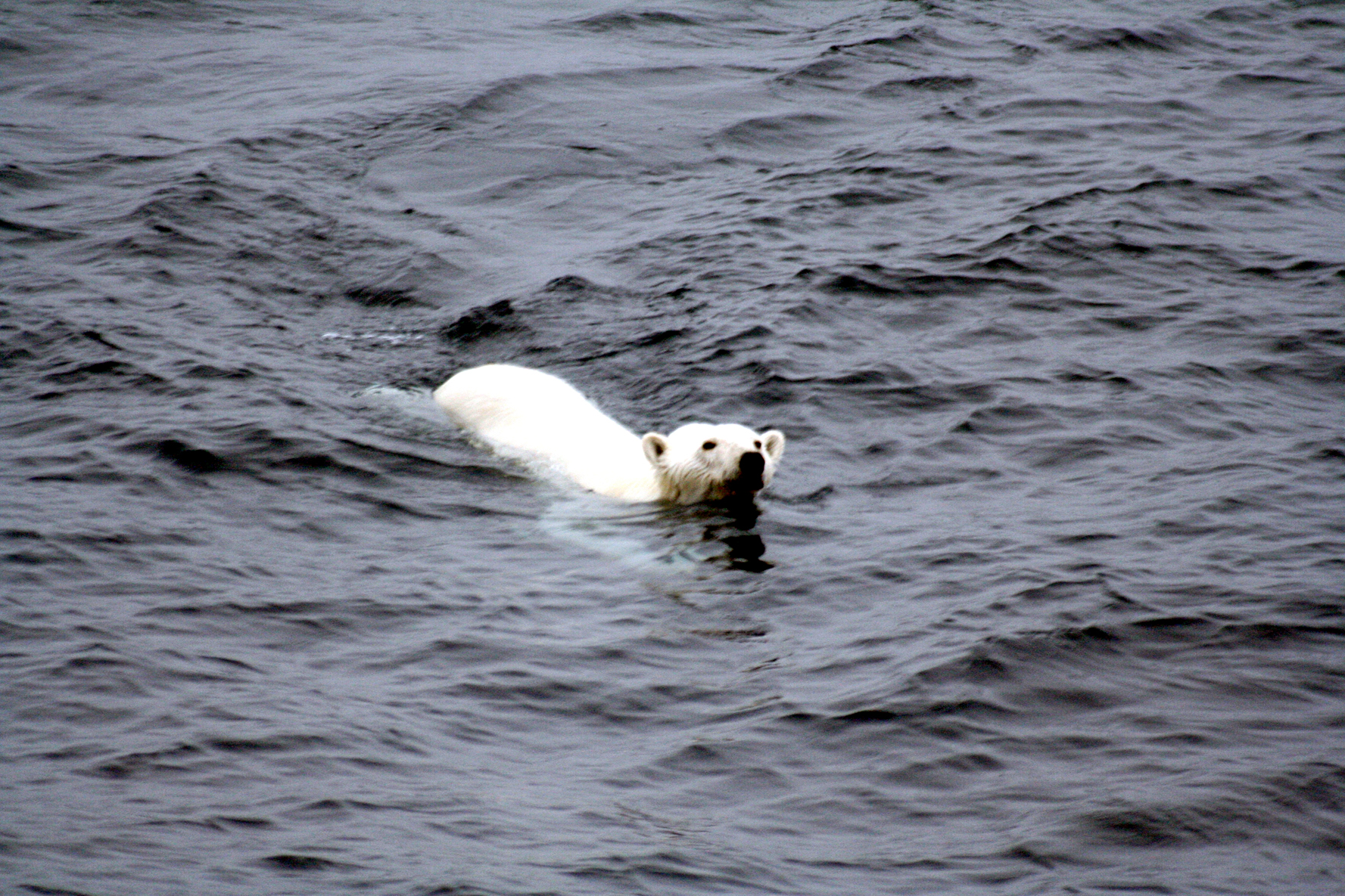 APolar bearis swimming toward our ship in Arctic Photograped by Brocken Inaglory